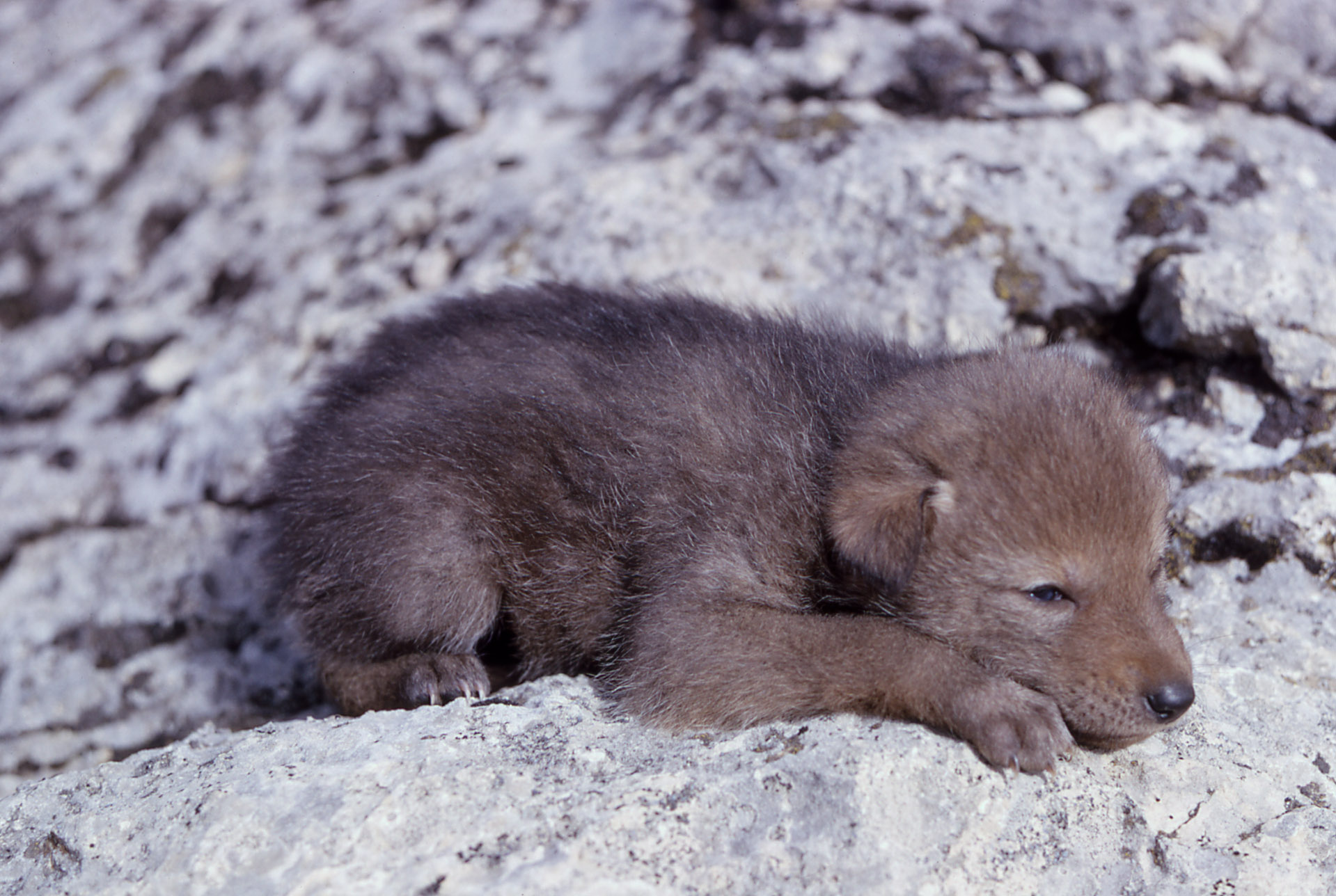 Coyote pup